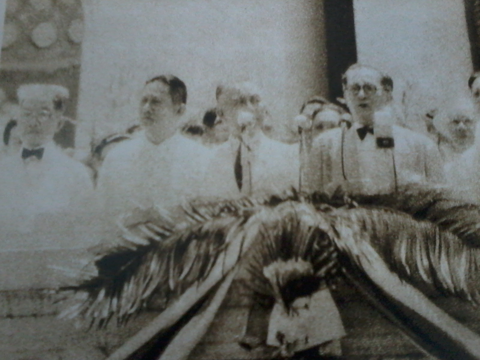 The Inauguration of José P. Laurel as the third President of the Philippines and the first president of the Second Philippine Republic under Japan occurred on October 14, 1943. The inauguration marked the marked the beginning of the first term of José P. Laurel as President.